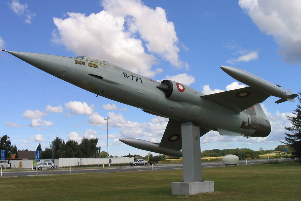 Danish air force F-104 Starfighter outside Aalborg airbaseDansk: Dansk F-104 Starfighter placeret udenfor Flyvestation Aalborg